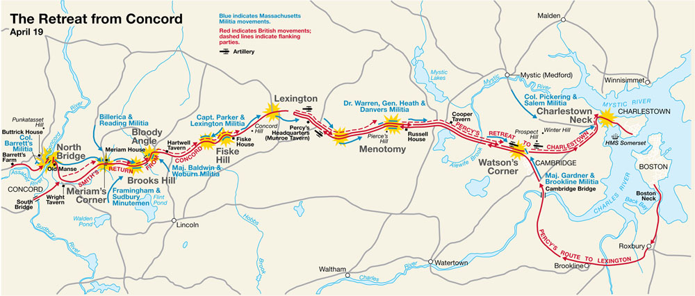 Minute Man National Historical Park Battle Map